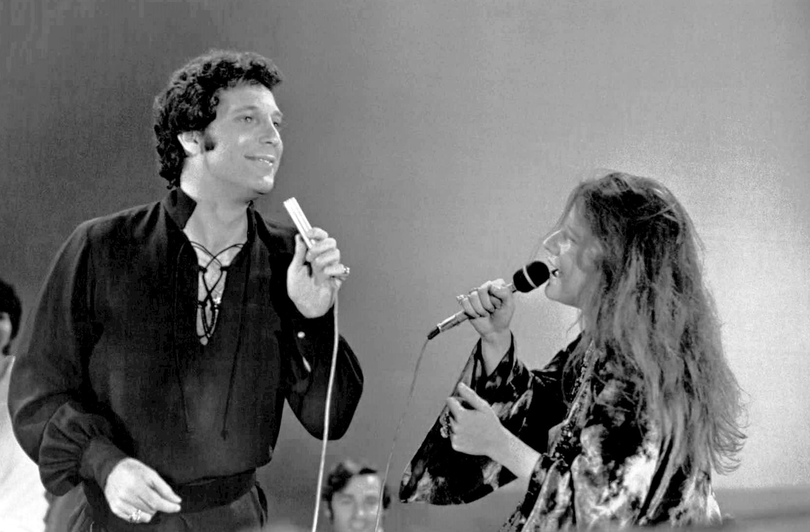 Photo of Janis Joplin and Tom Jones from the television program This is Tom Jones.